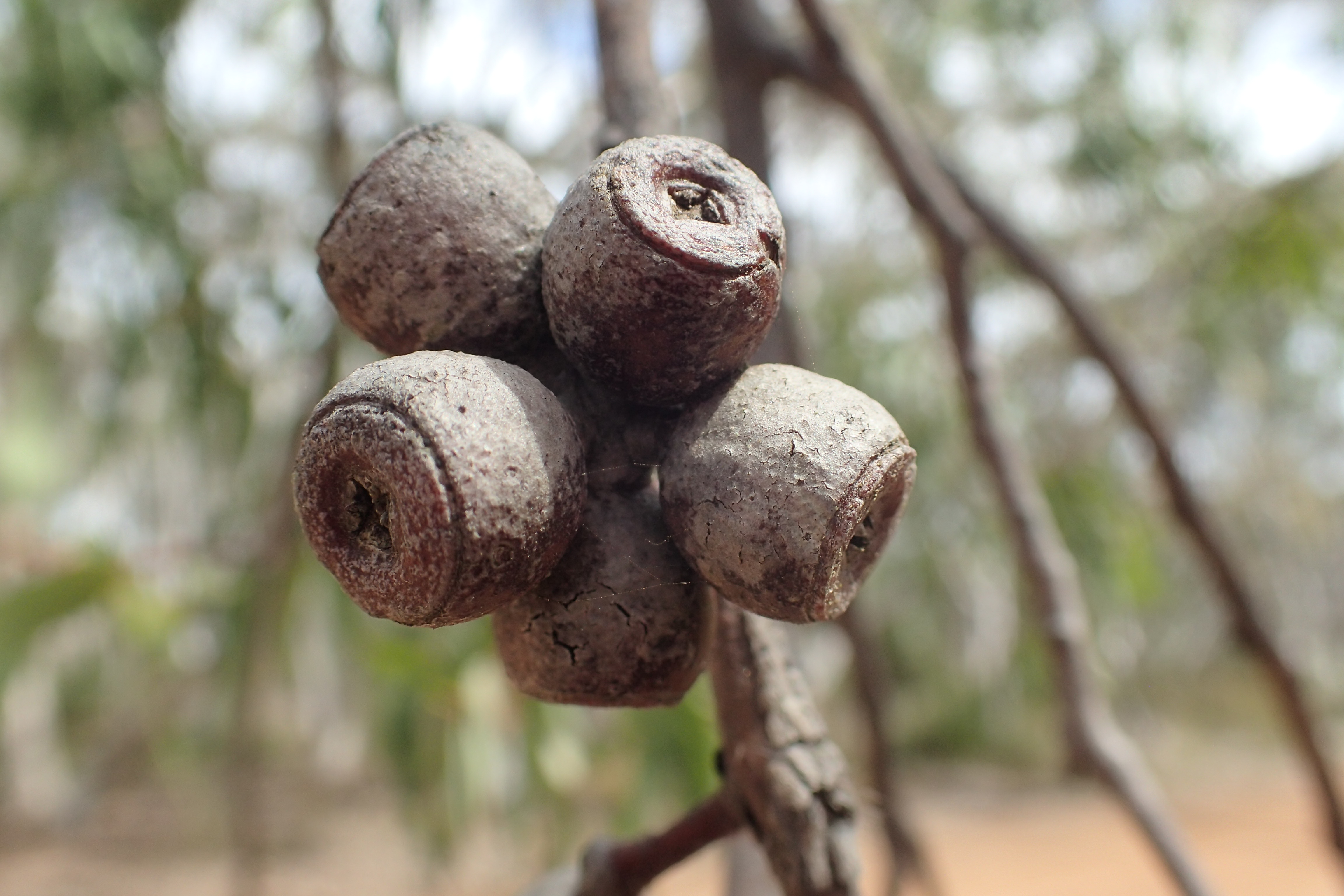 Fruit of Eucalyptus patens in Helms Arboretum, north of Esperance, Western Australia